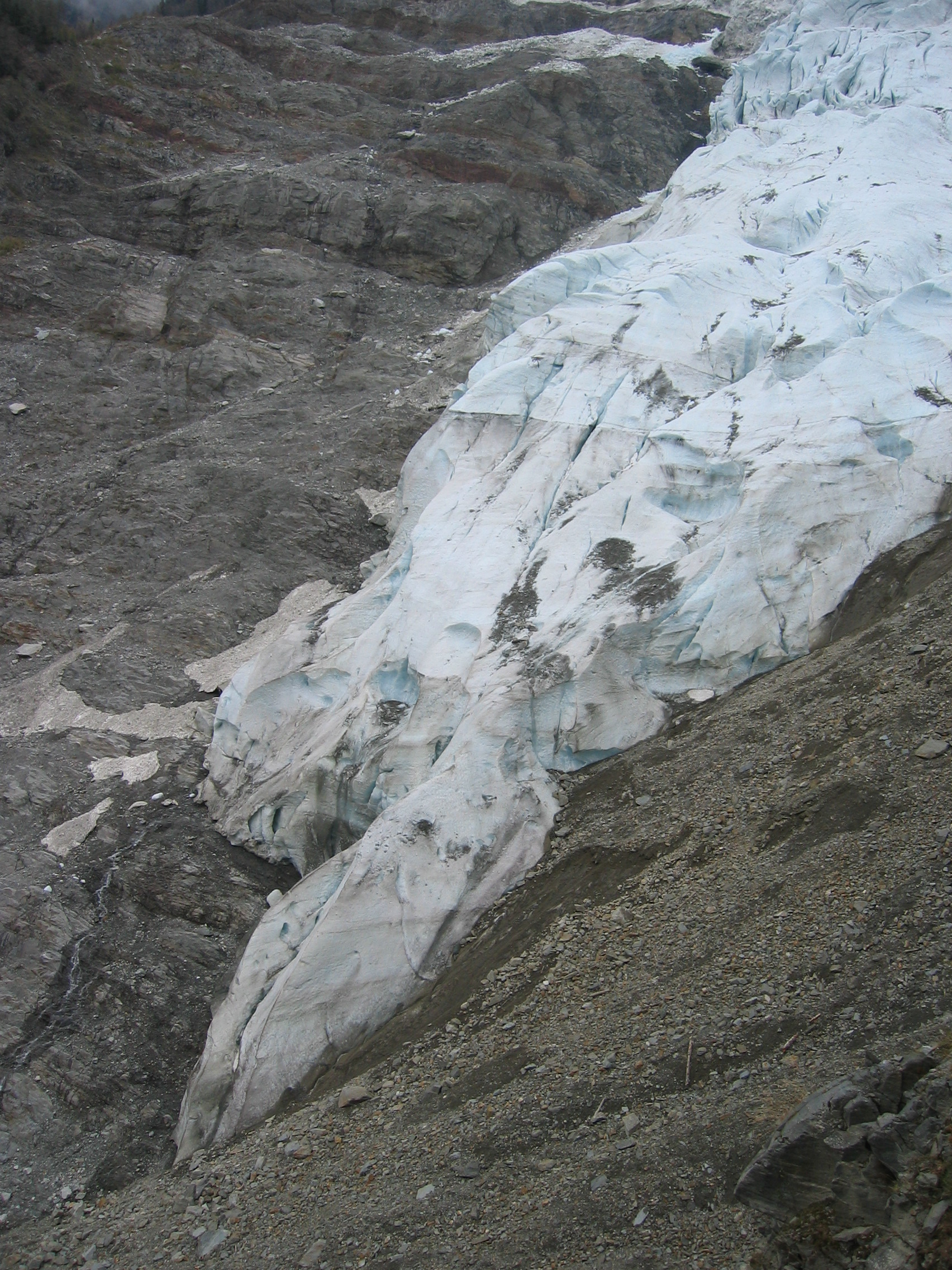 Glacier des Bossons van de zijkant gezien